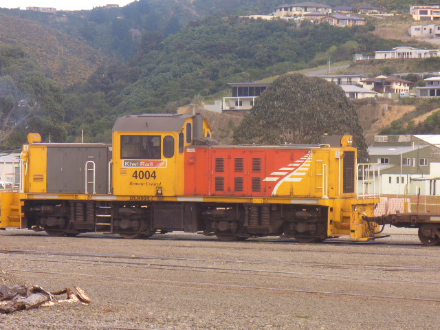 TrainboyMBH